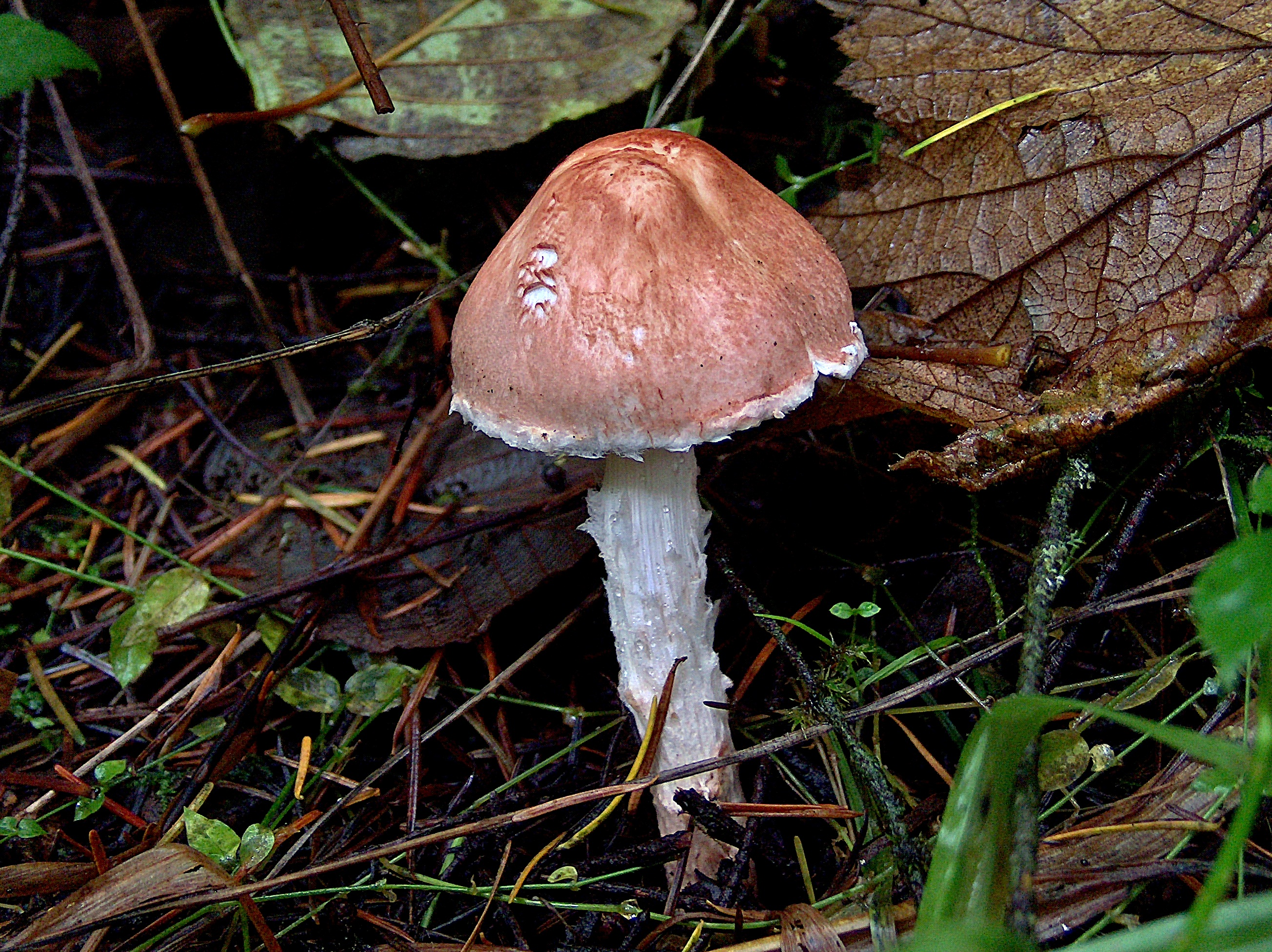 A fruit body of the poisonous mushroom Lepiota subincarnata J.E. Lange. Photographed in Lebanon, Oregon, USA.